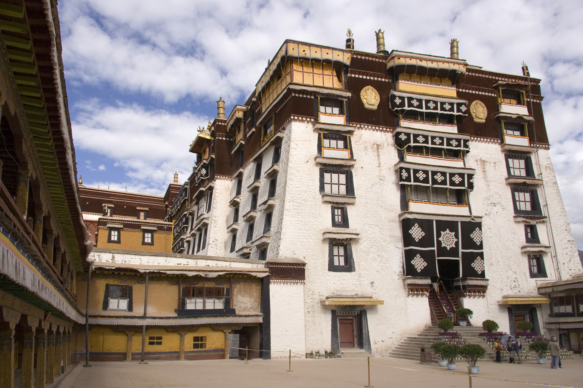 The White Palace of Potala Palace, Dalai Lama former residence until the chinese invasion of 1959.